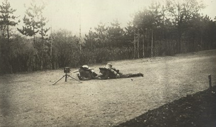 Bulgaria